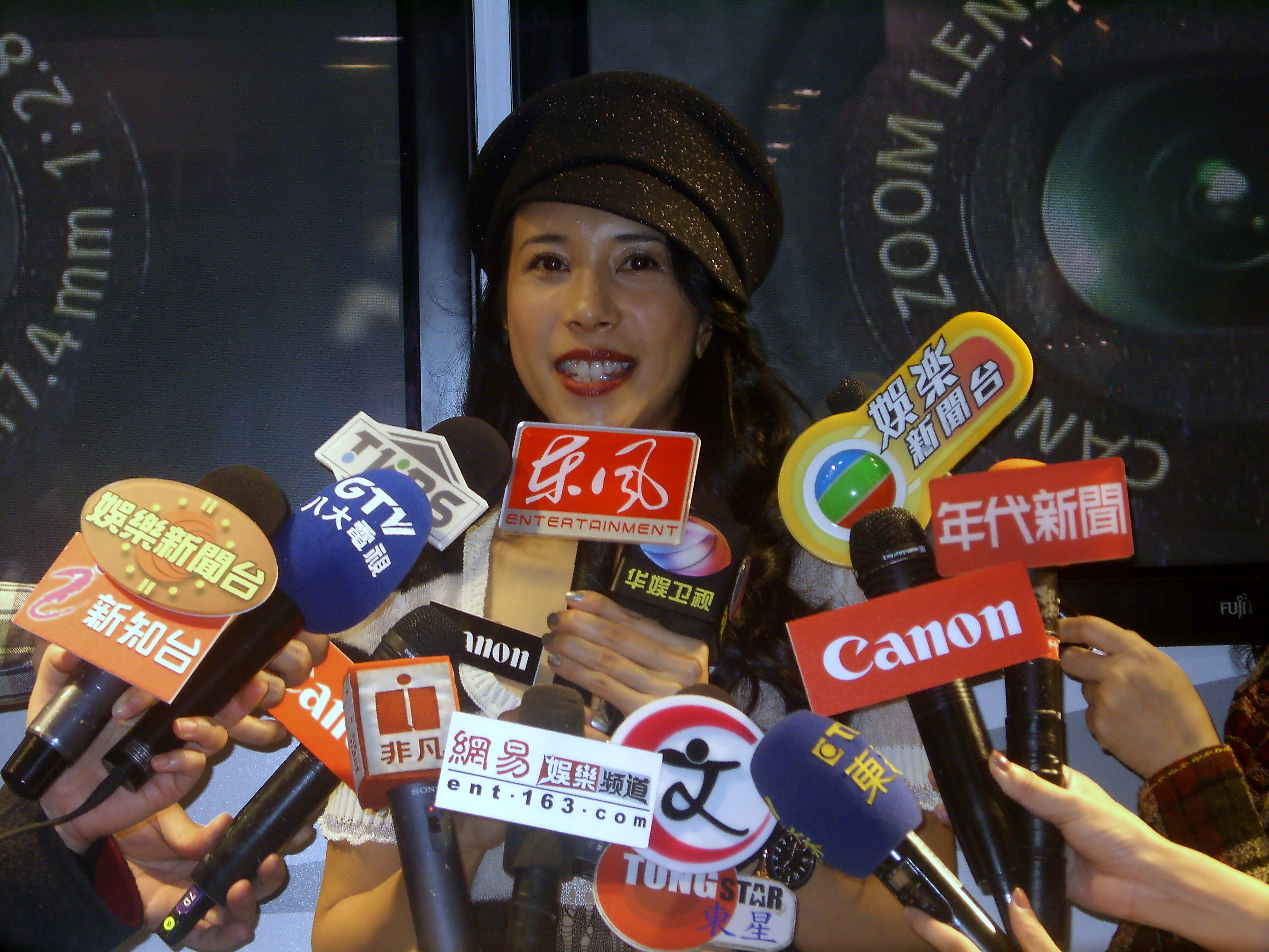 2007 Taipei IT Month: Karen Mok was interviewed at Canon's activity.